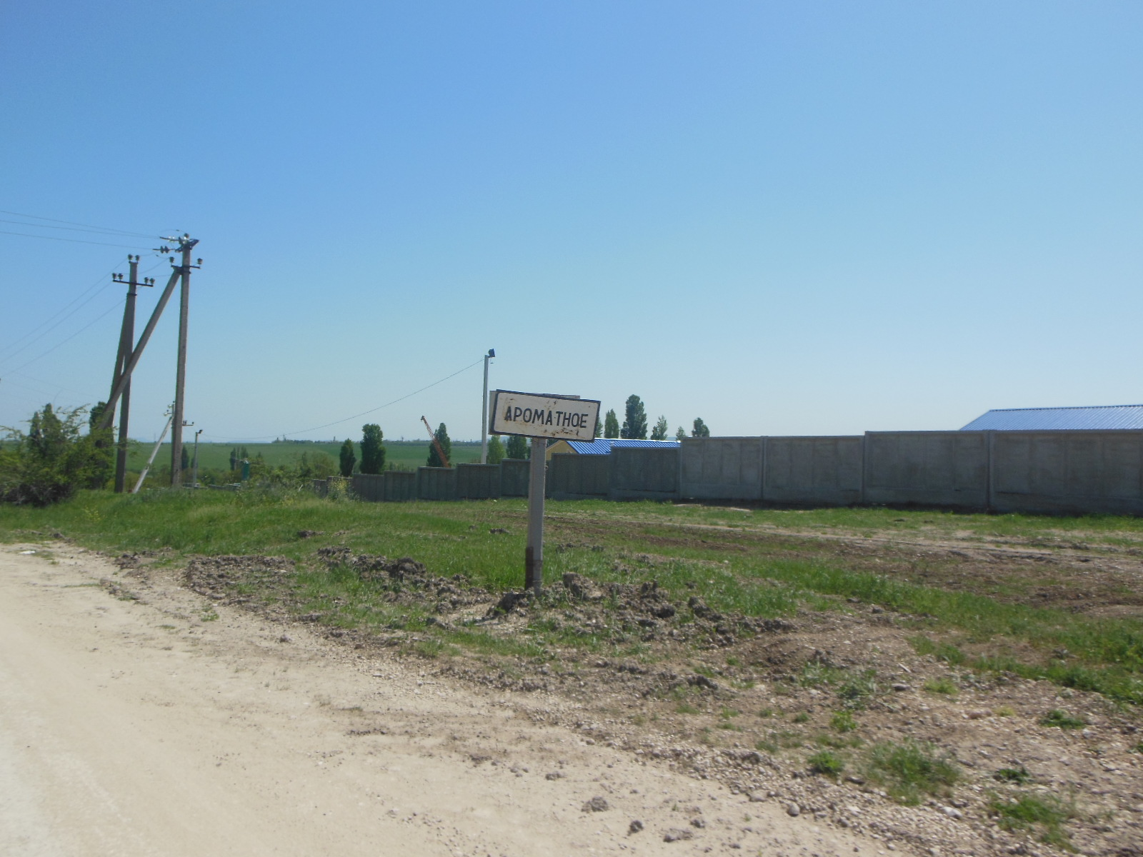 The village Aromatnoe, Belogorsky region, Crimea